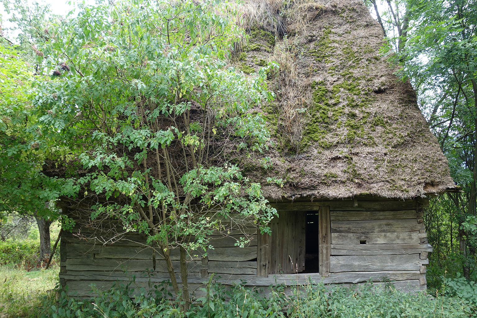 Thatched house in Ticera